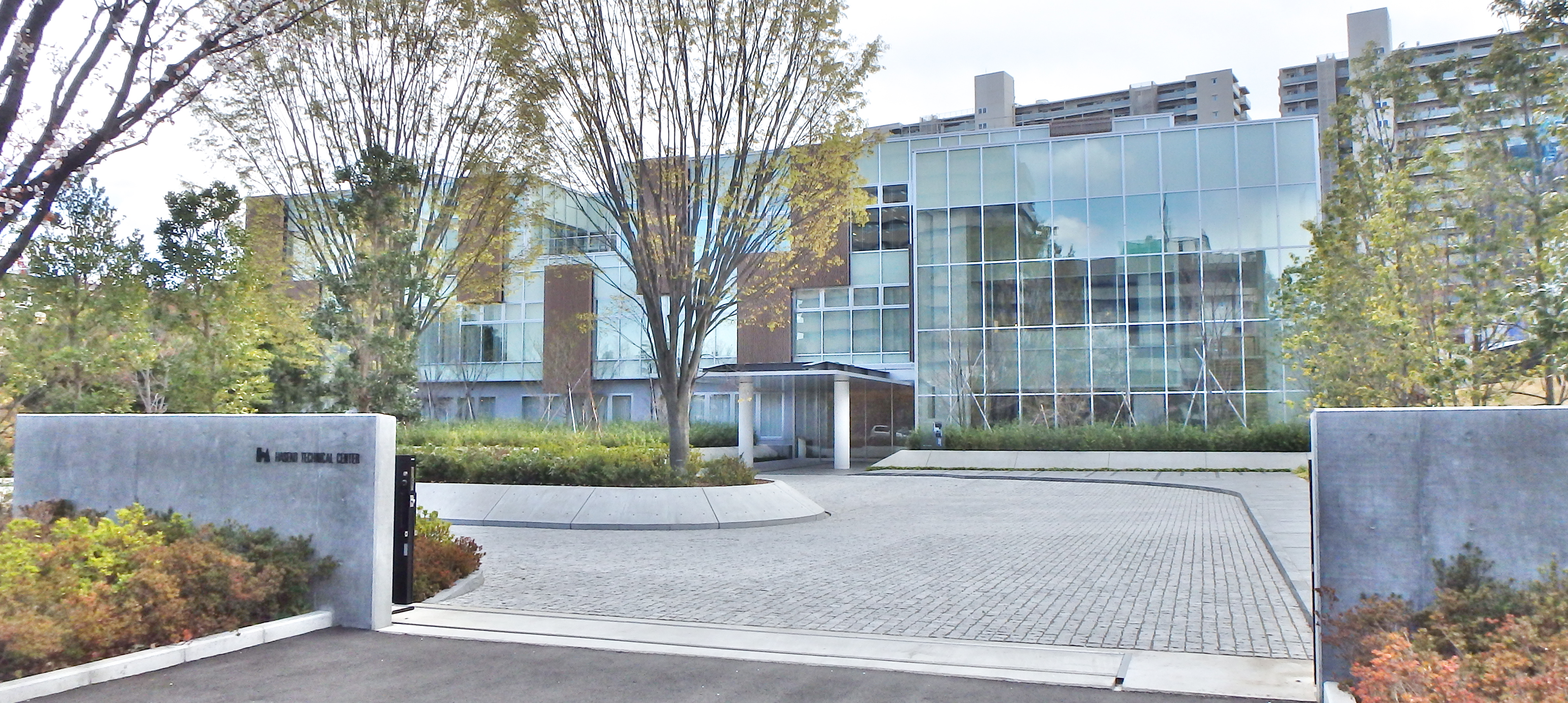 HASEKO Mansion Museum, Tokyo Metropolis,Japan